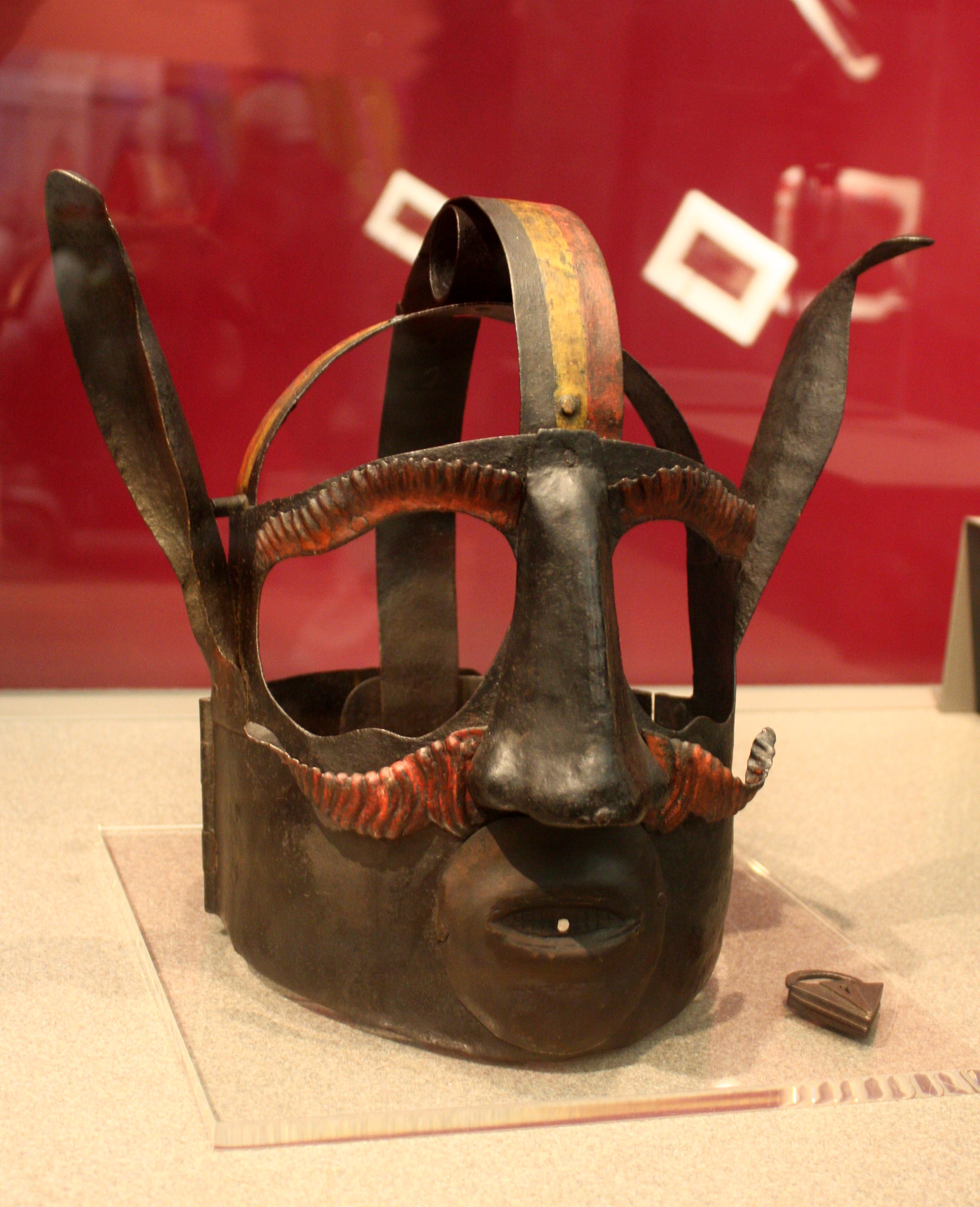 16th century Scottish brank or scold's bridle, made of iron. Kelvingrove Art Gallery and Museum, Glasgow, Scotland.